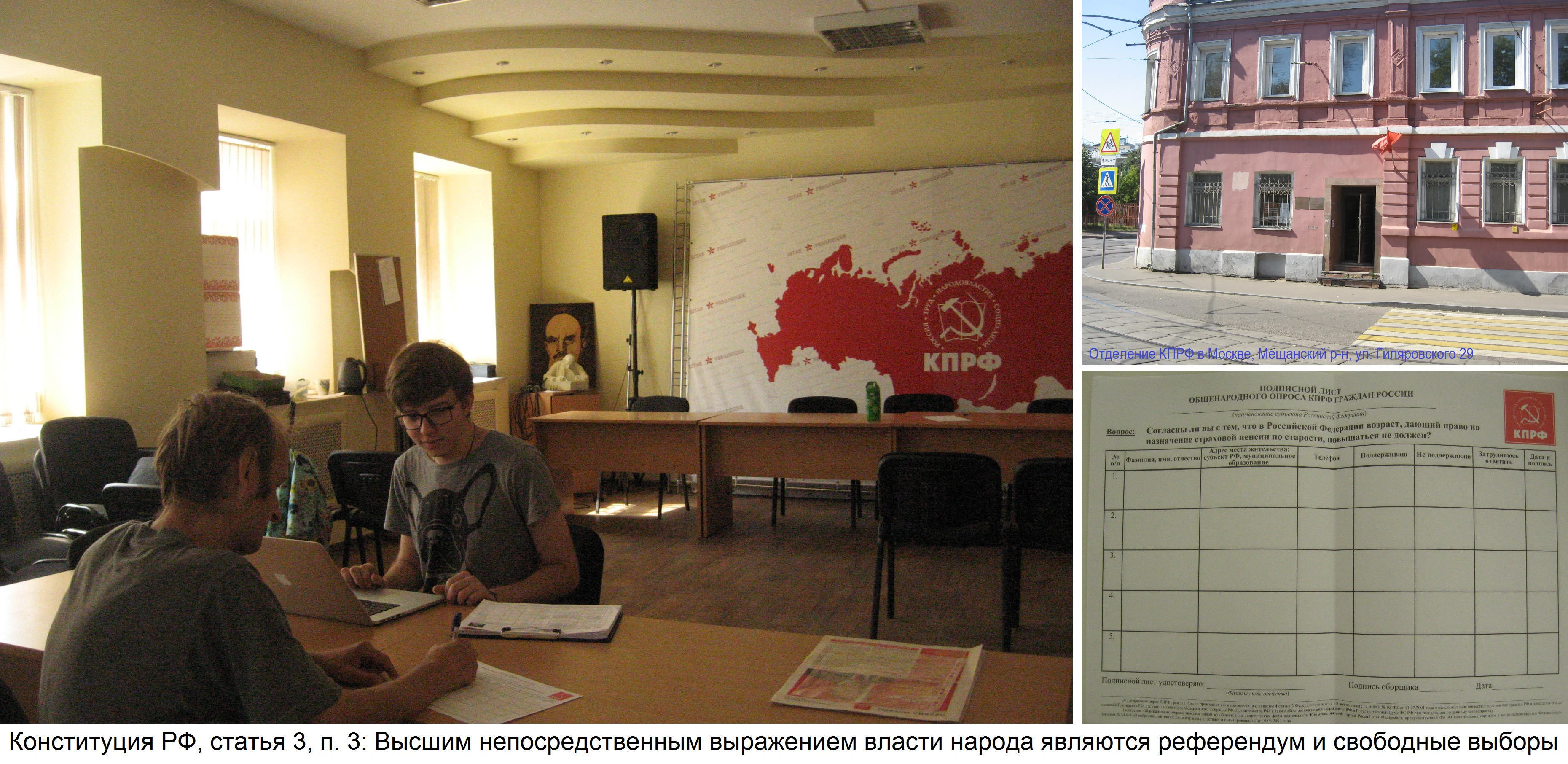 Due to the adoption by Parliament (in the first reading) of the law providing for an increase in the retirement age in the Russian Federation, attempts were made to organize a nationwide referendum to abolish the increase in the retirement age (in accordance with article 3 of the Constitution). Collection of signatures.